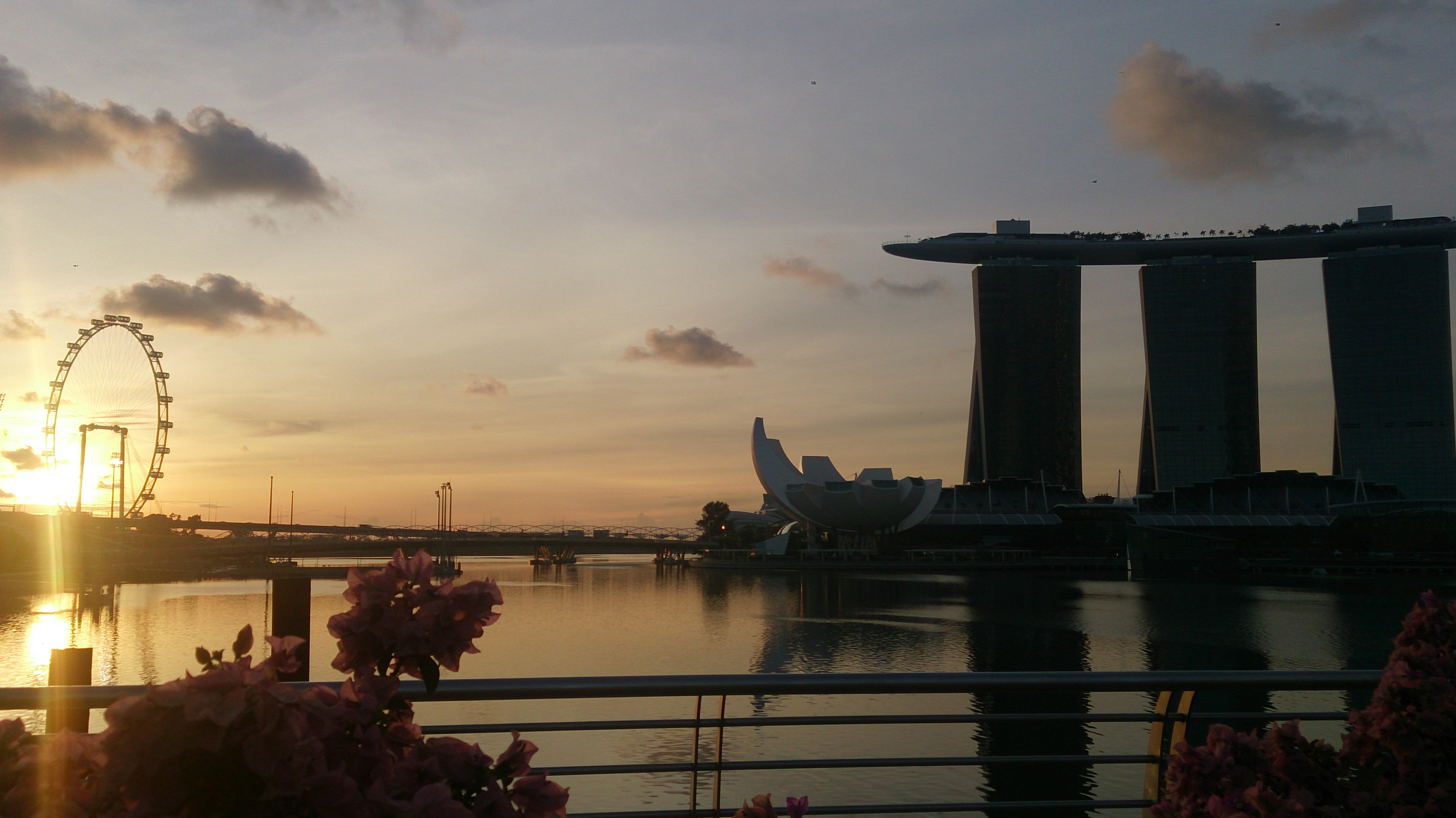 A silhouette view of the Singapore Flyer (at the left) and Marina Bay Sands (right) on a Sunday morning.